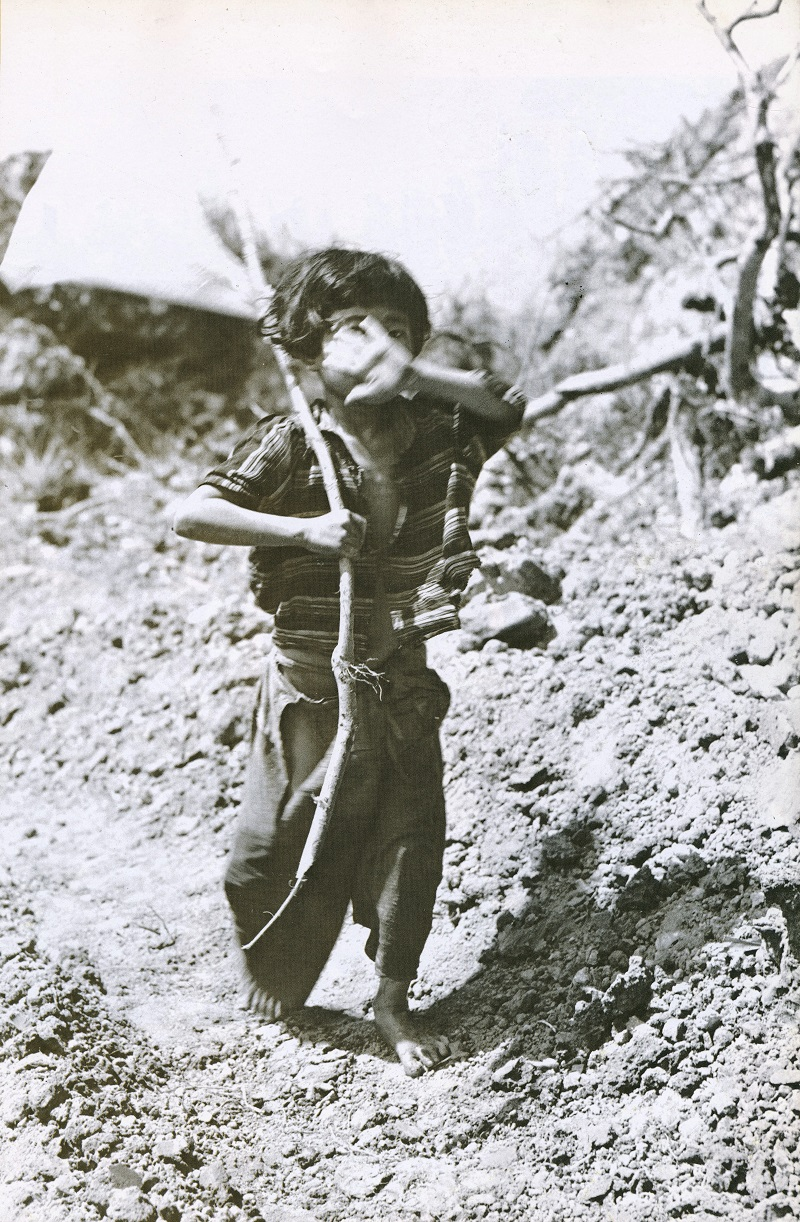 The girl (Tomiko) with the white flag taken by U.S. Army combat photographer John Hendrickson in 25 June 1945.